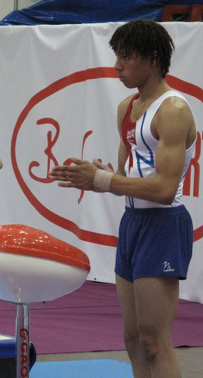 British Gymnast Jordan Ramos world Tumbling Championships, Jordan was part of the Wakefield Tumblers from 2005-2010